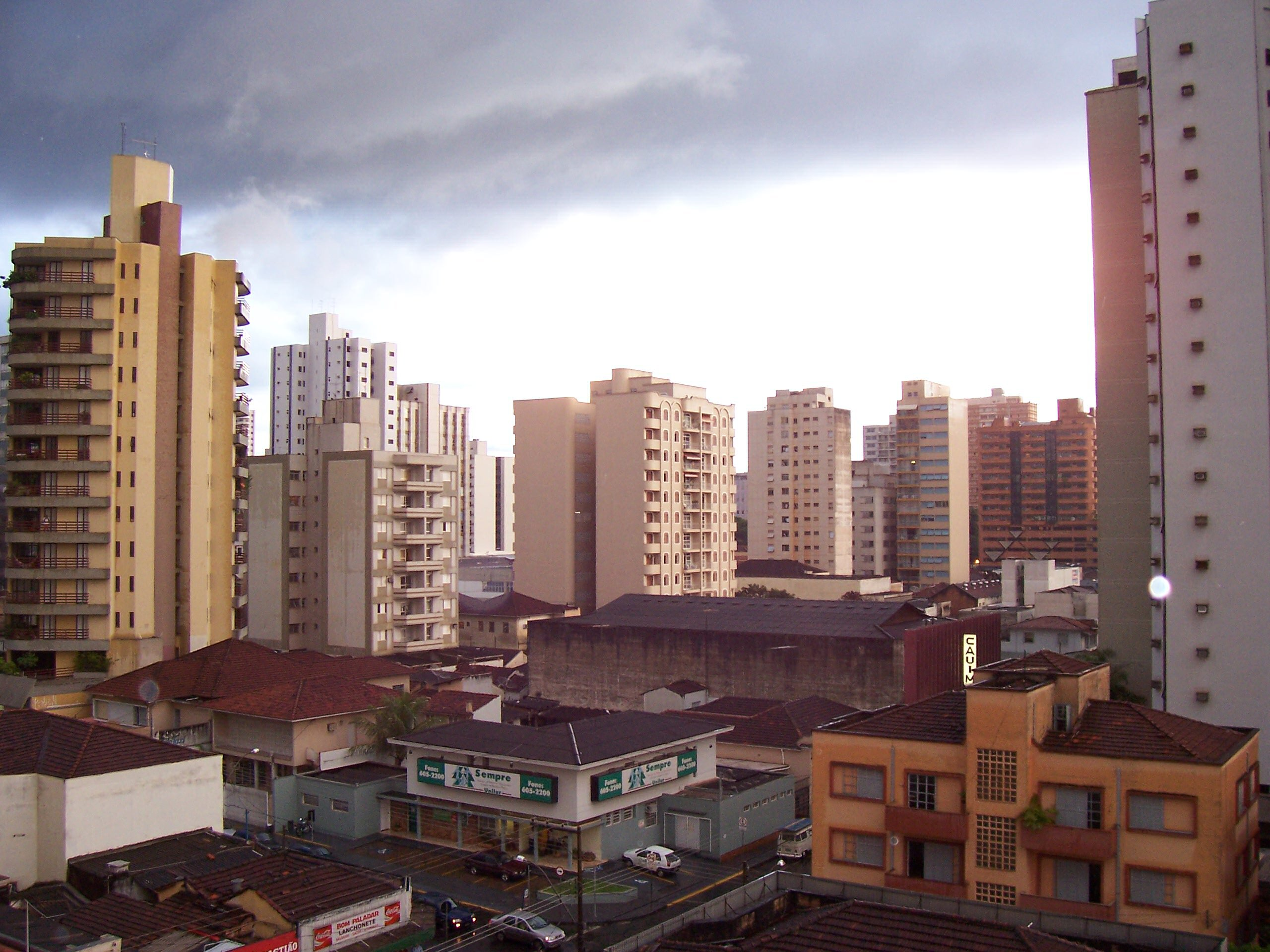 Downtown Ribeirão Preto